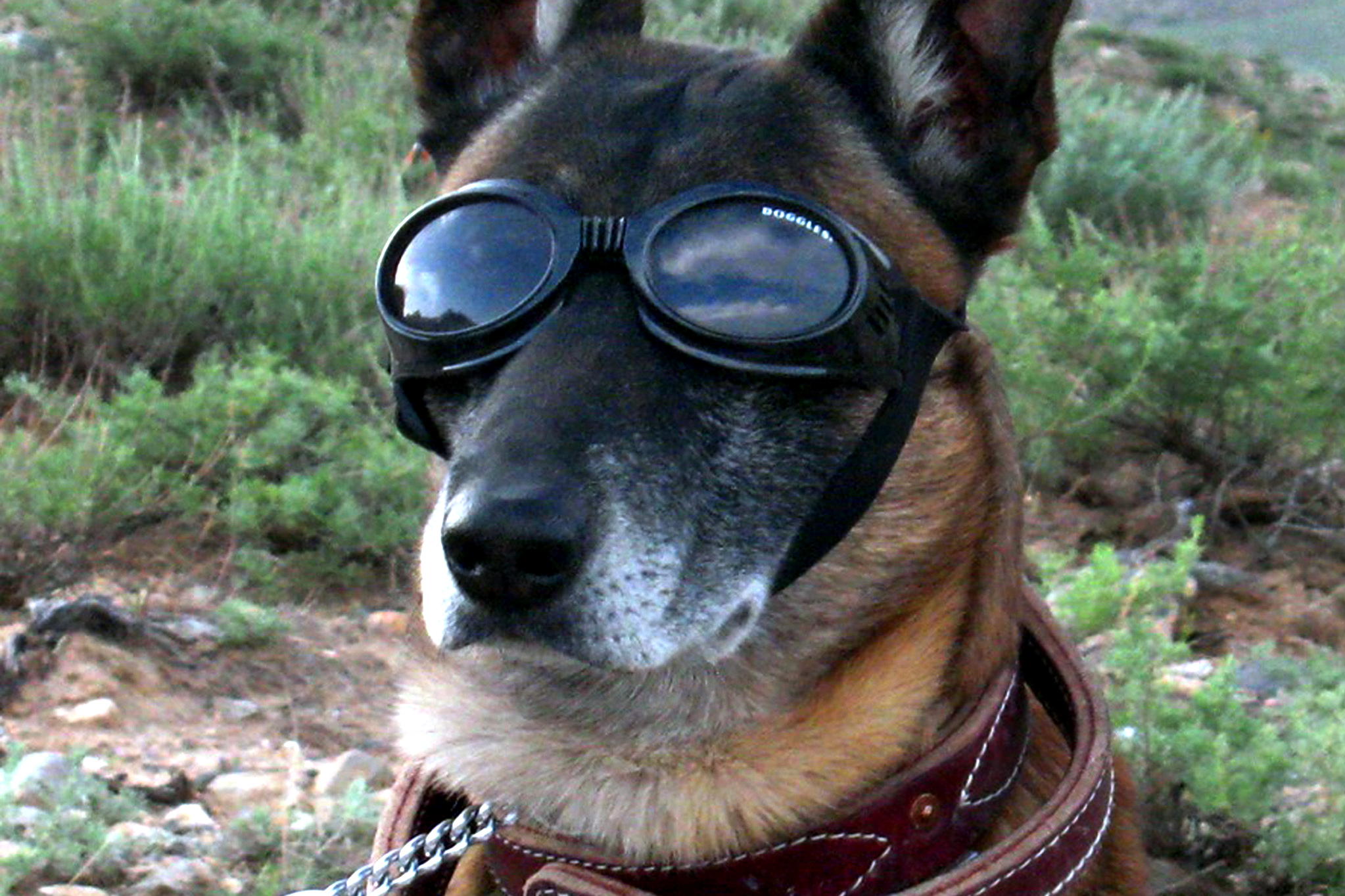 A military working dog wears Doggles to protect his eyes as a Chinook helicopter takes off, kicking up dust and debris, during an air assault operation by U.S. soldiers assigned to Alpha Troop, 1st Squadron, 172nd Cavalry Regiment, 86th Infantry Brigade Combat Team, Parwan province, Afghanistan, May 11, 2010.